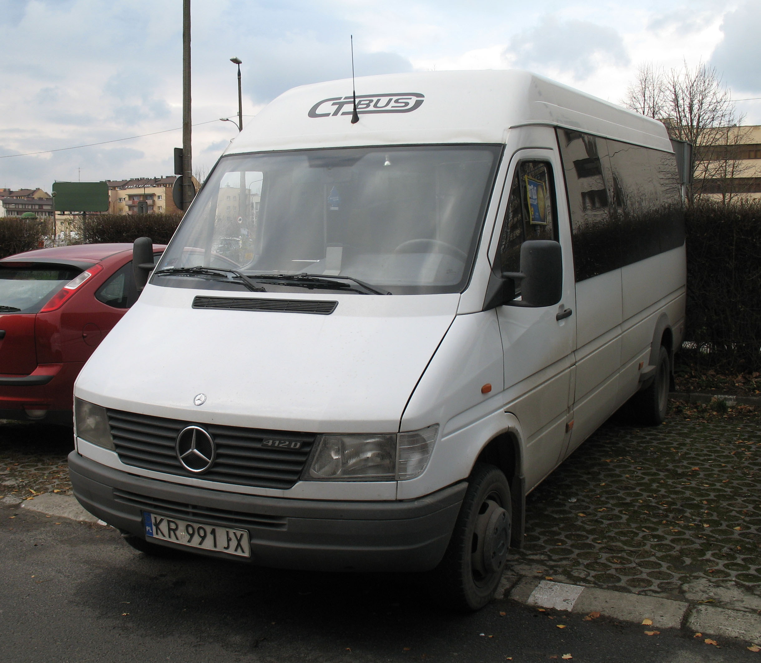 Mercedes-Benz Sprinter 412D bus in Kraków, Poland. Tarox Kraków operator (brand CTBUS).